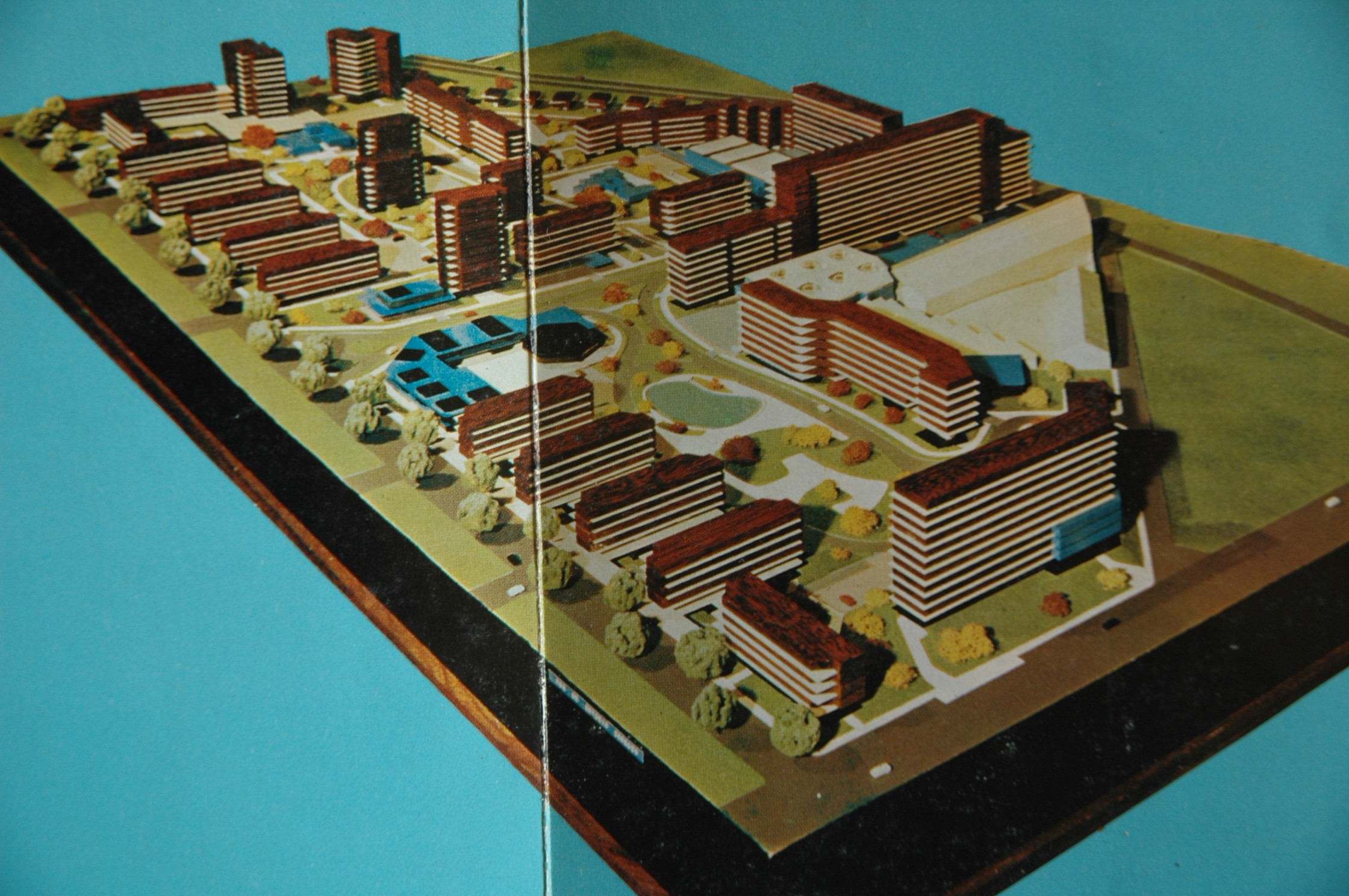 Scale Model unit presentation of Unit of BESSA - . - PORTO